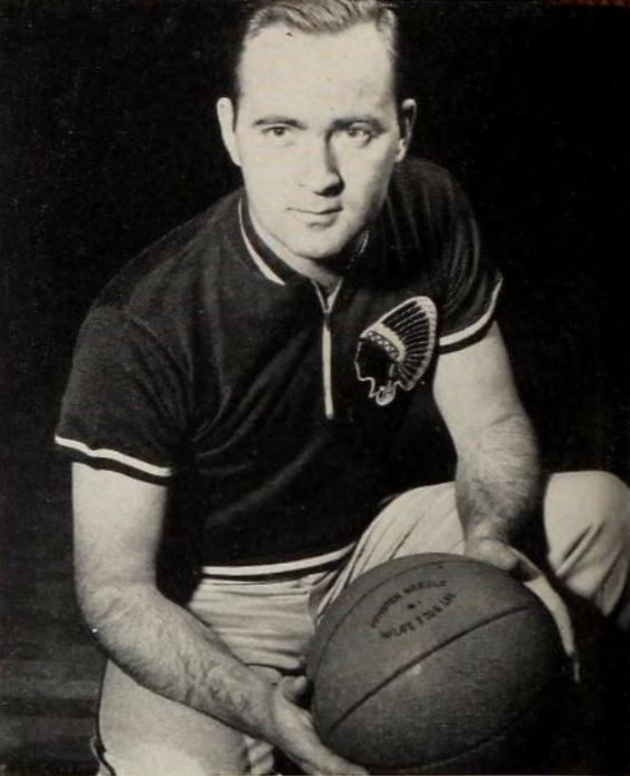 Bradley University basketball coach Forrest “Forddy” Anderson from the 1953 “Anaga” yearbook.